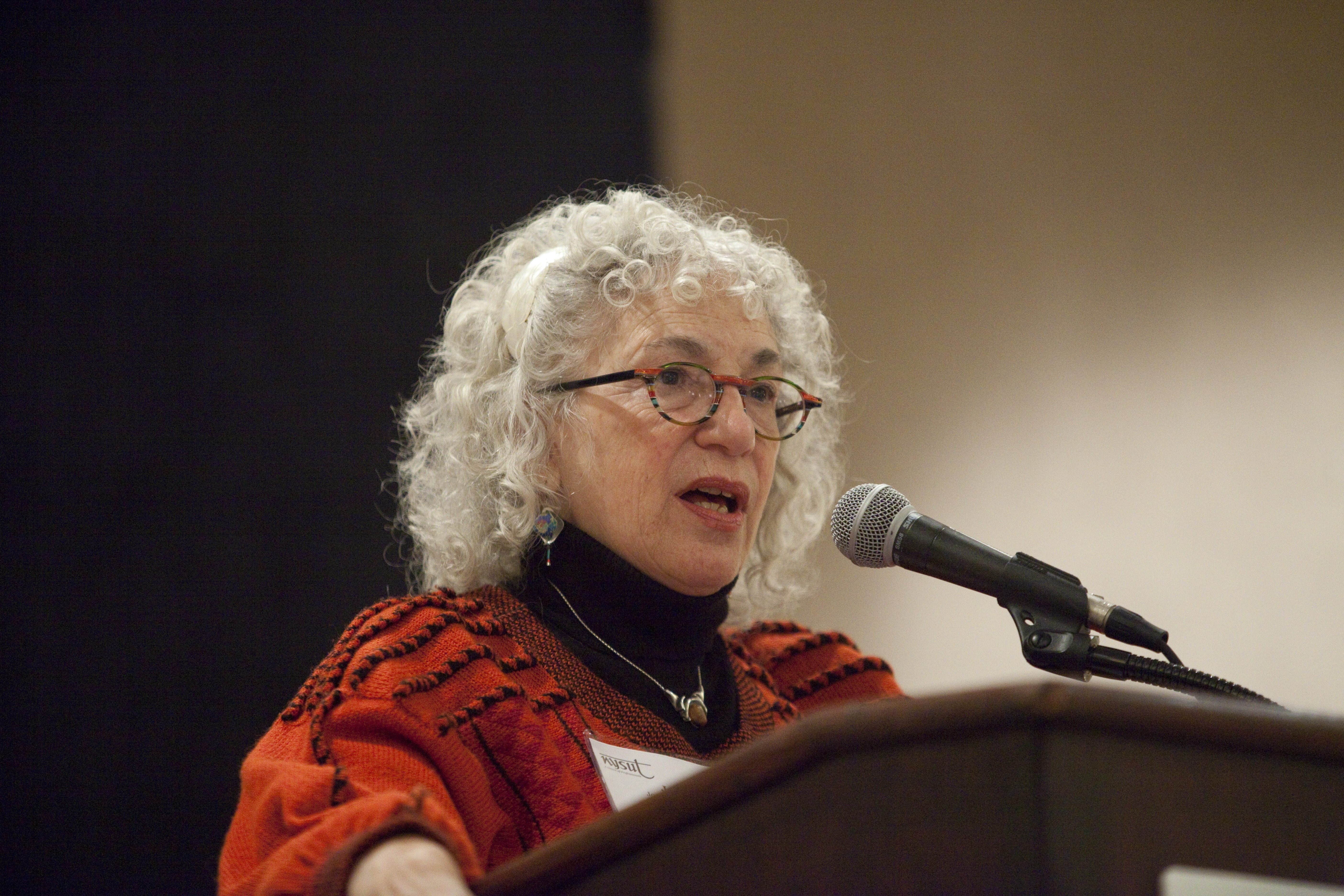 Professor Greenbuam at the NYSUT Health and Safety Conference in 2013